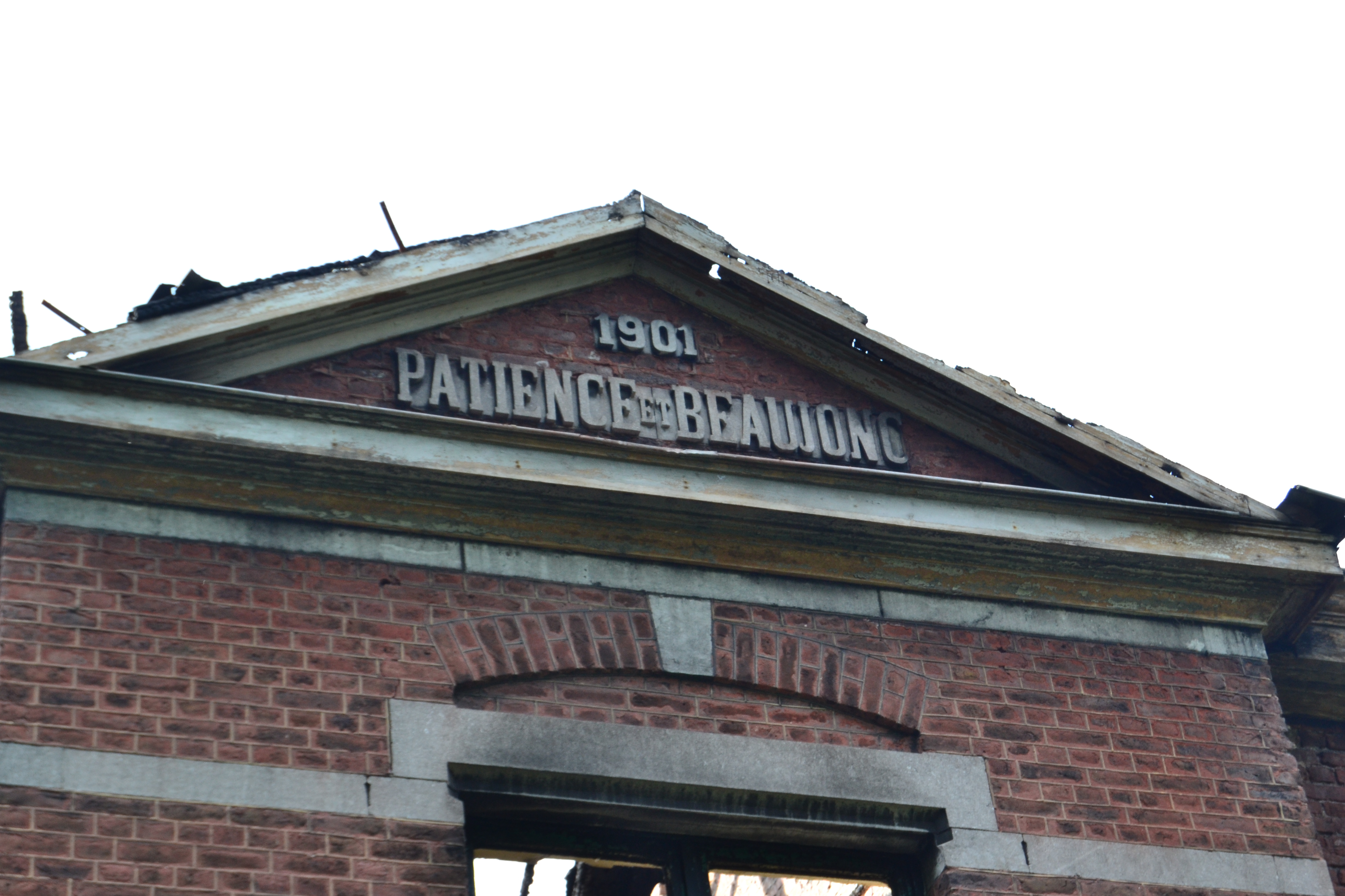 Ancient administrative seat of the Société anonyme des Charbonnages de Patience et Beaujonc réunis (coal mine in Liège, Belgium)